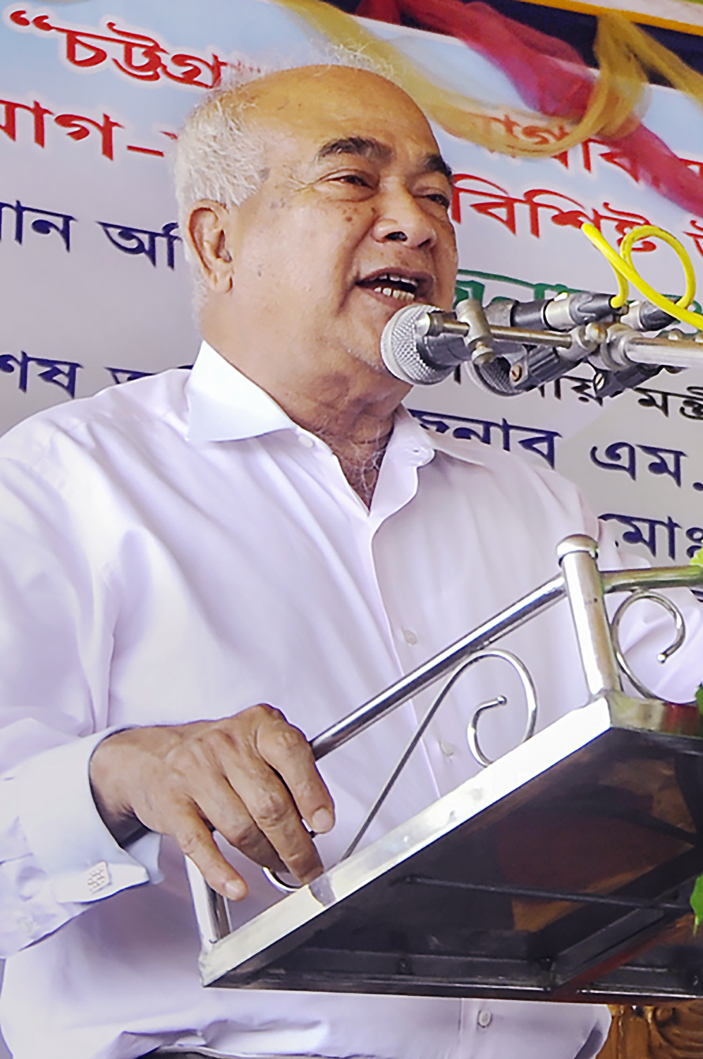 Mosharraf Hossain in 2016